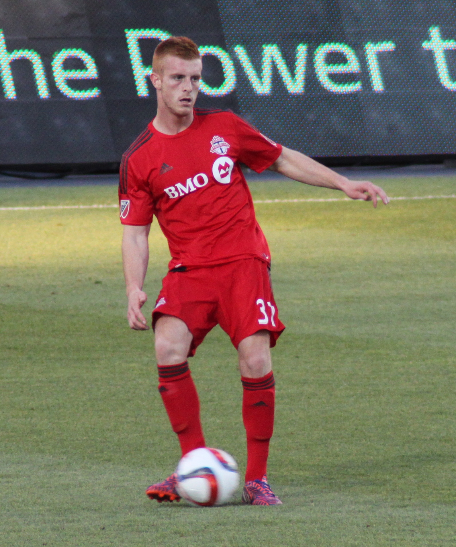 2015-07-22 Toronto FC vs Sunderland A.F.C.